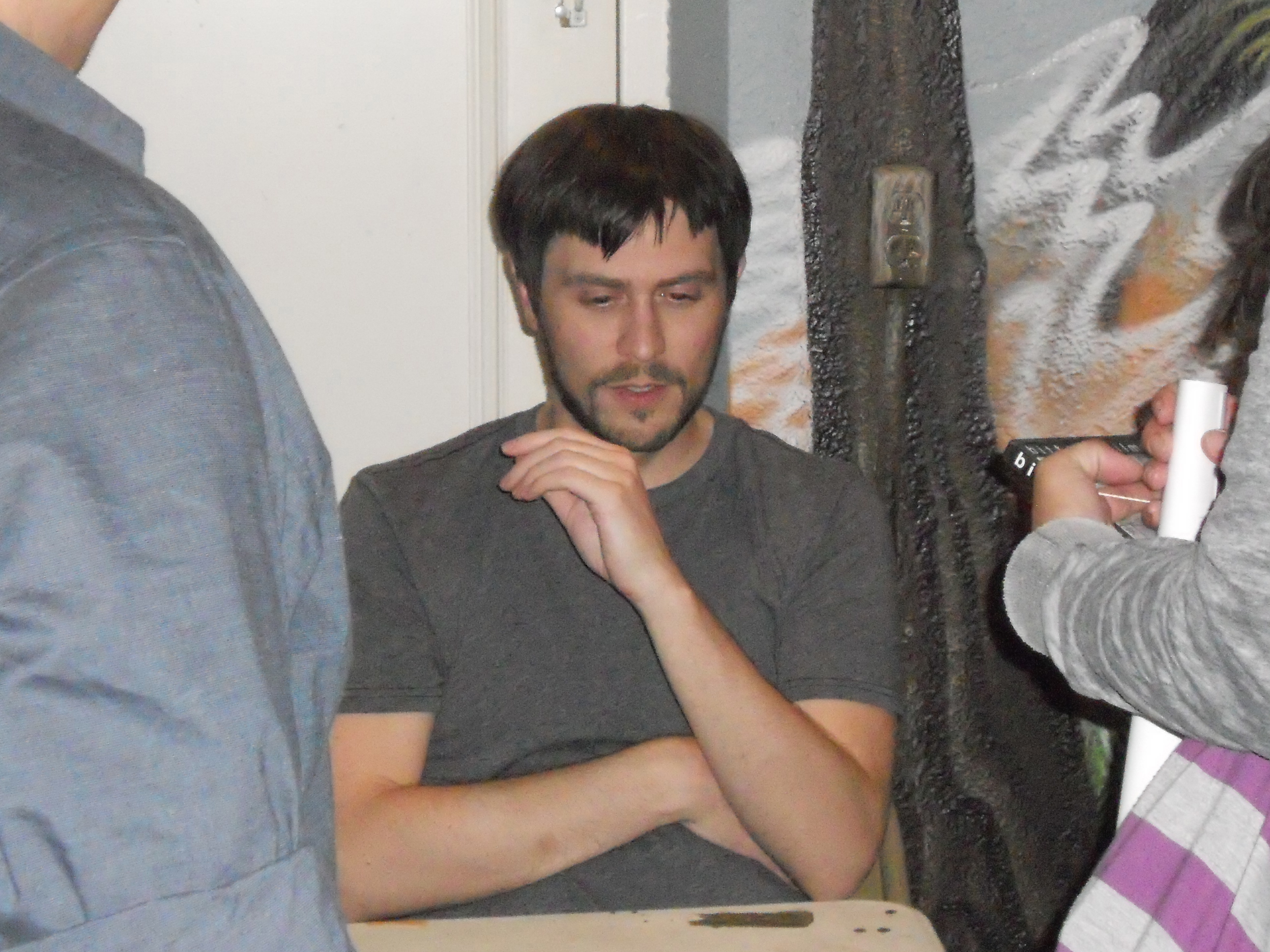 Don chatting with fans at Sun Ray Cinemas in Jacksonville